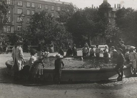 Hundetorvet, the area between Vendersgade and Frederiksborggade, in 1913 incorporated into Grøntorvet,, now israels Plads, in Copenhagen, Denmark